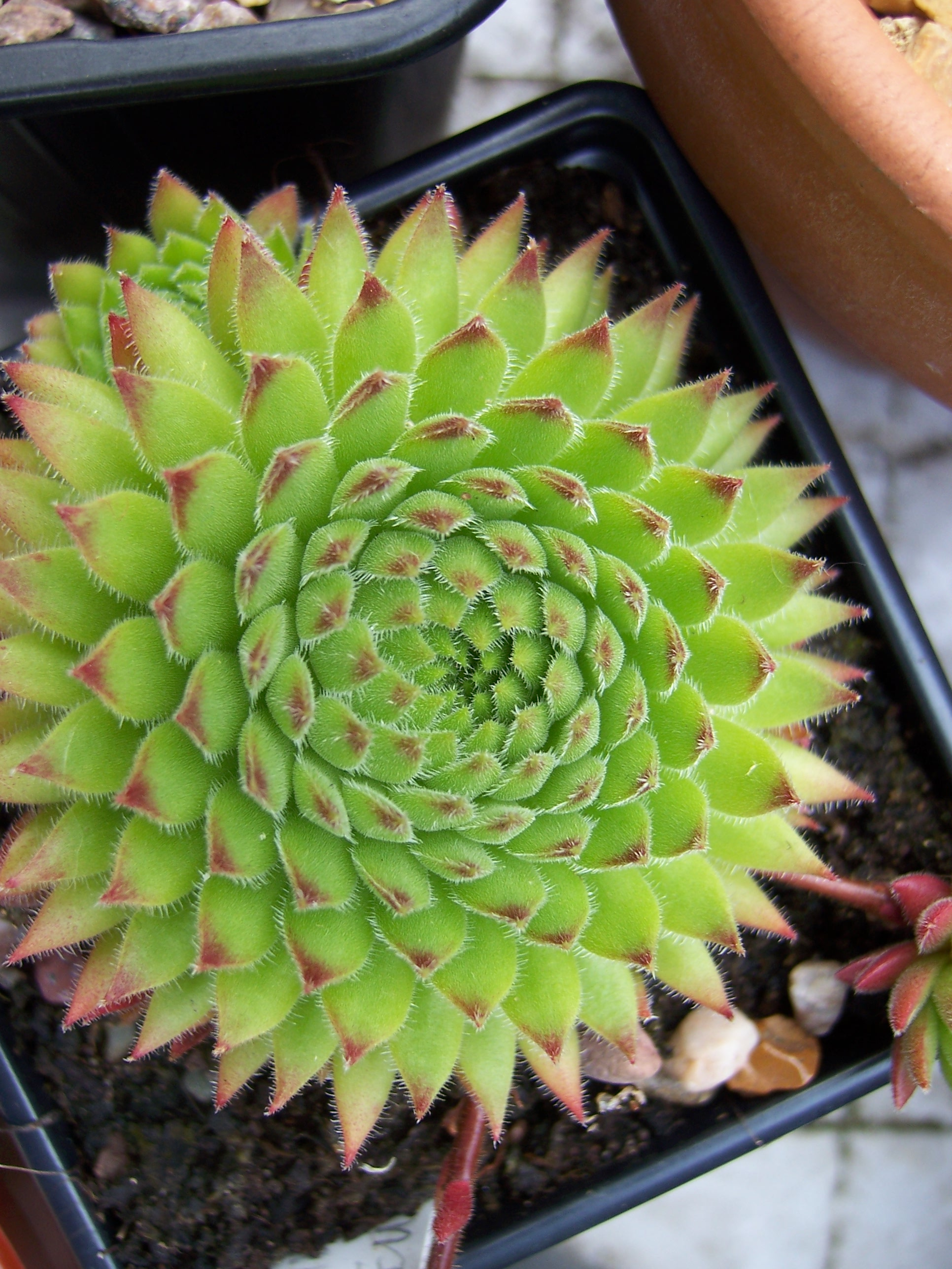 Sempervivum Erythraeum